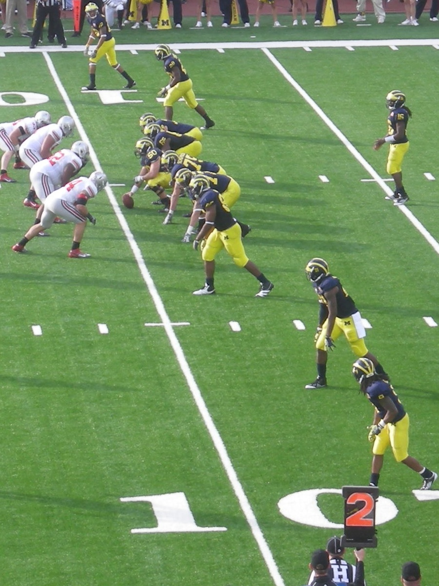 Michigan on offense during the Ohio State Buckeyes vs. Michigan Wolverines game on November 26, 2011. Michigan won 40–34.